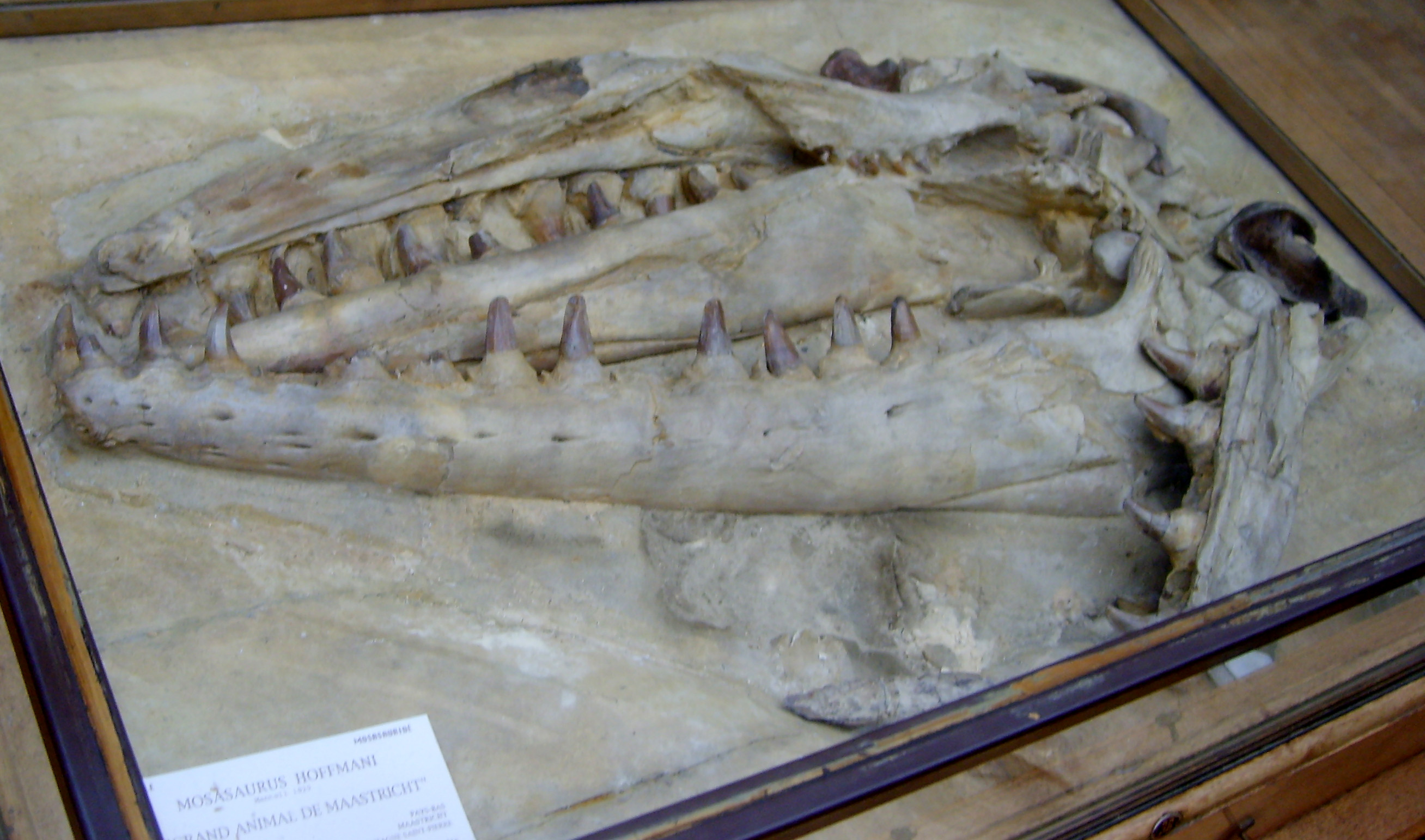 Mosasaurus hoffmannii holotype jaw fragments (great animal from Maastricht specimen), Muséum national d'histoire naturelle, Paris.